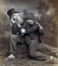 Photograph of actor Henrik Klausen as Peer in the premiere production of Henrik Ibsen's Peer Gynt in 1876.